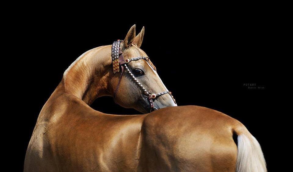 Golden Akhalteke horse. Photographed by Artur Baboev